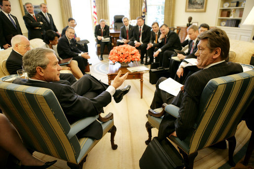 American President Bush meeting with Ukrainian President Yushchenko. One of the topics discussed was Belarus.